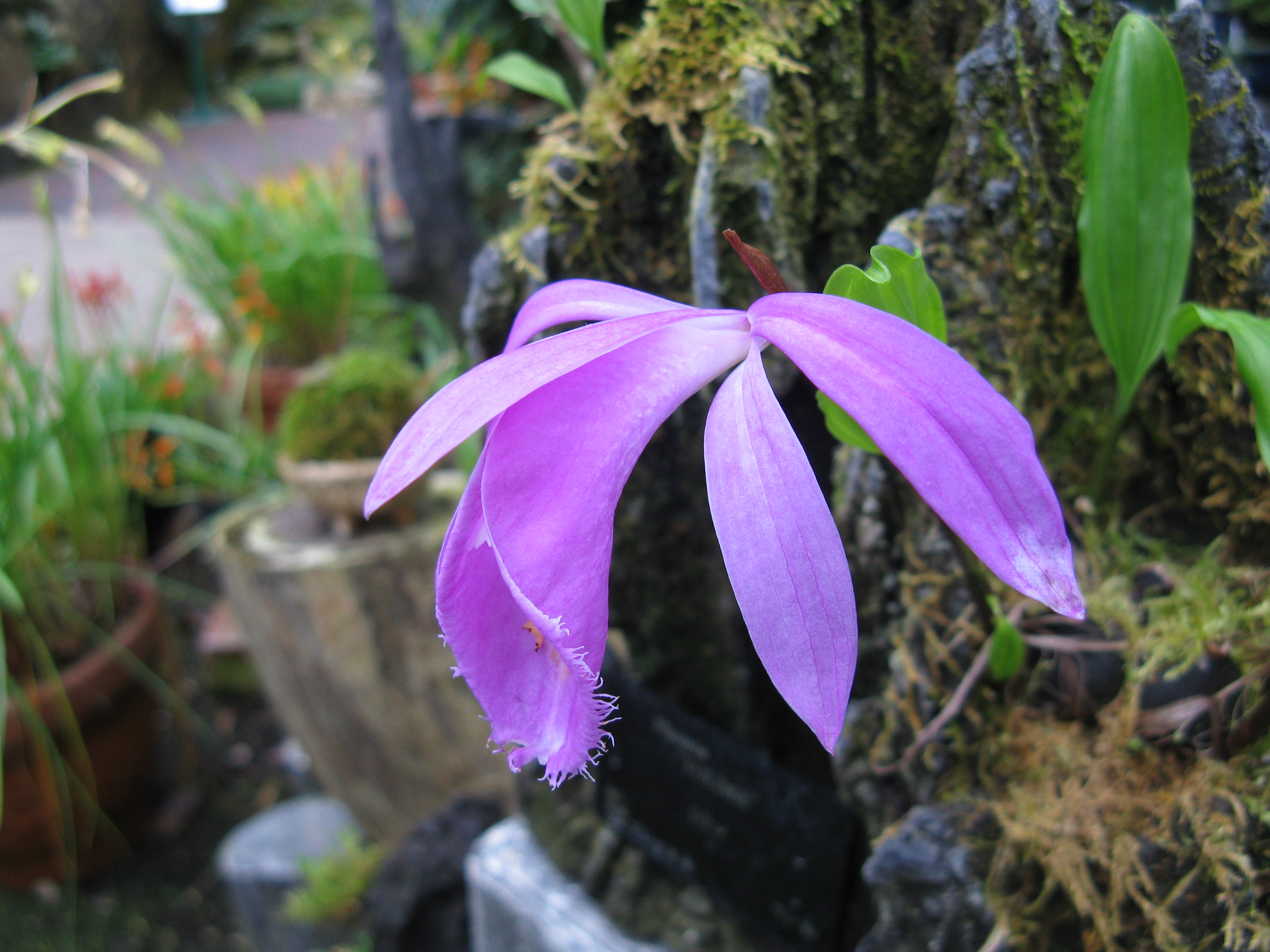 Scientific name Pleione 'TOLIMA' Place: Osaka Prefectural Flower Garden,Osaka, Japan